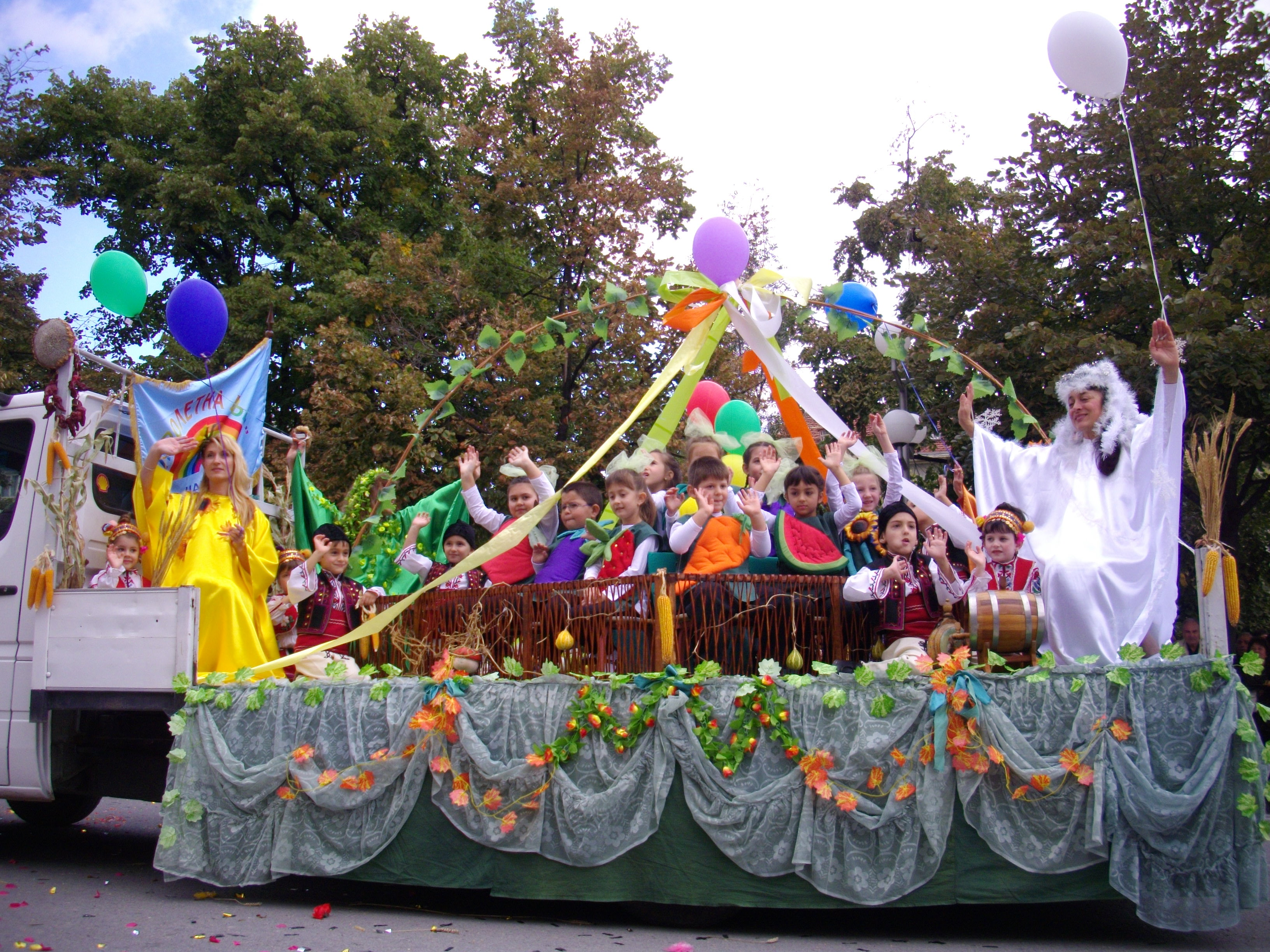 Карнавал на плодородието